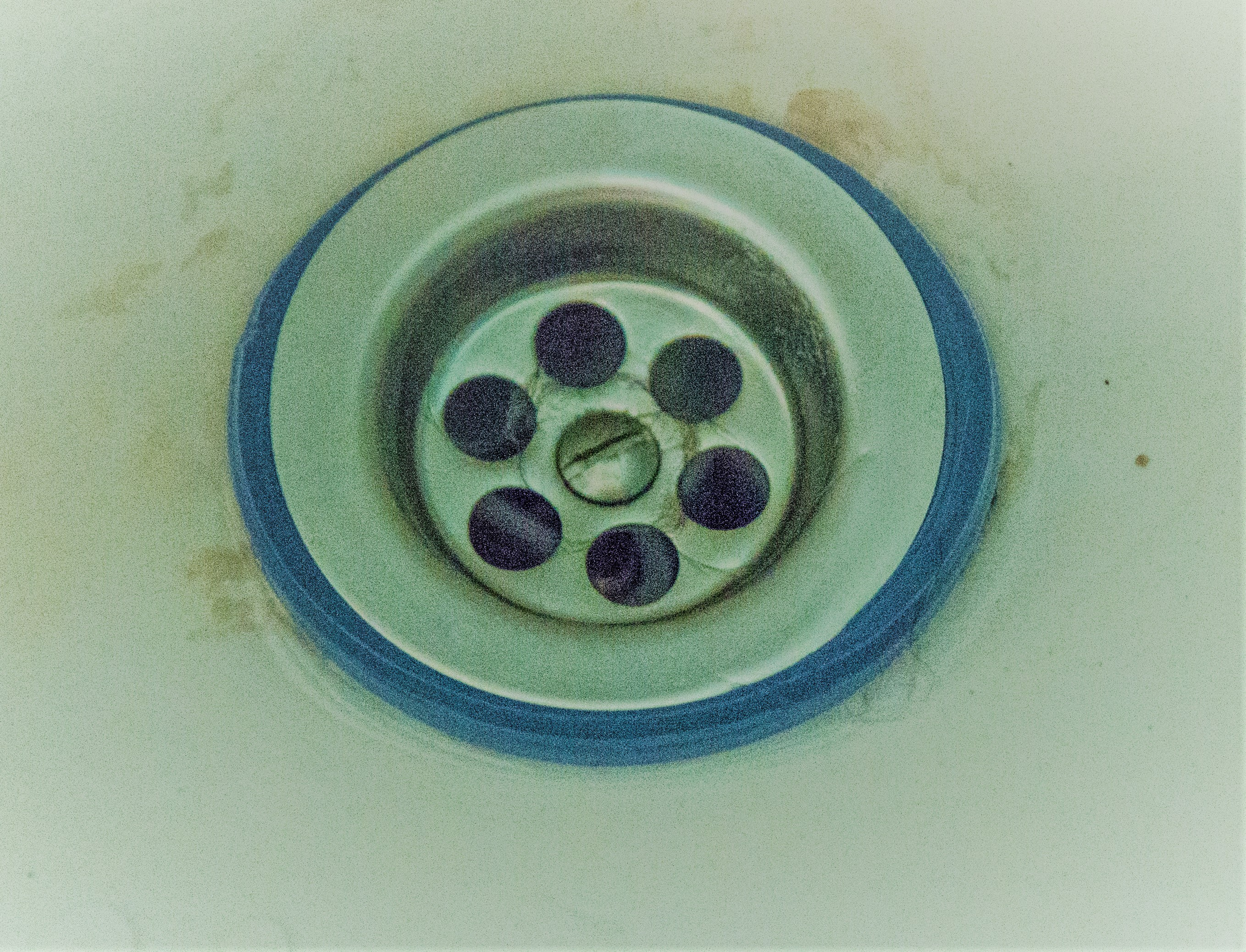 A photograph of a water outlet in a Russian home